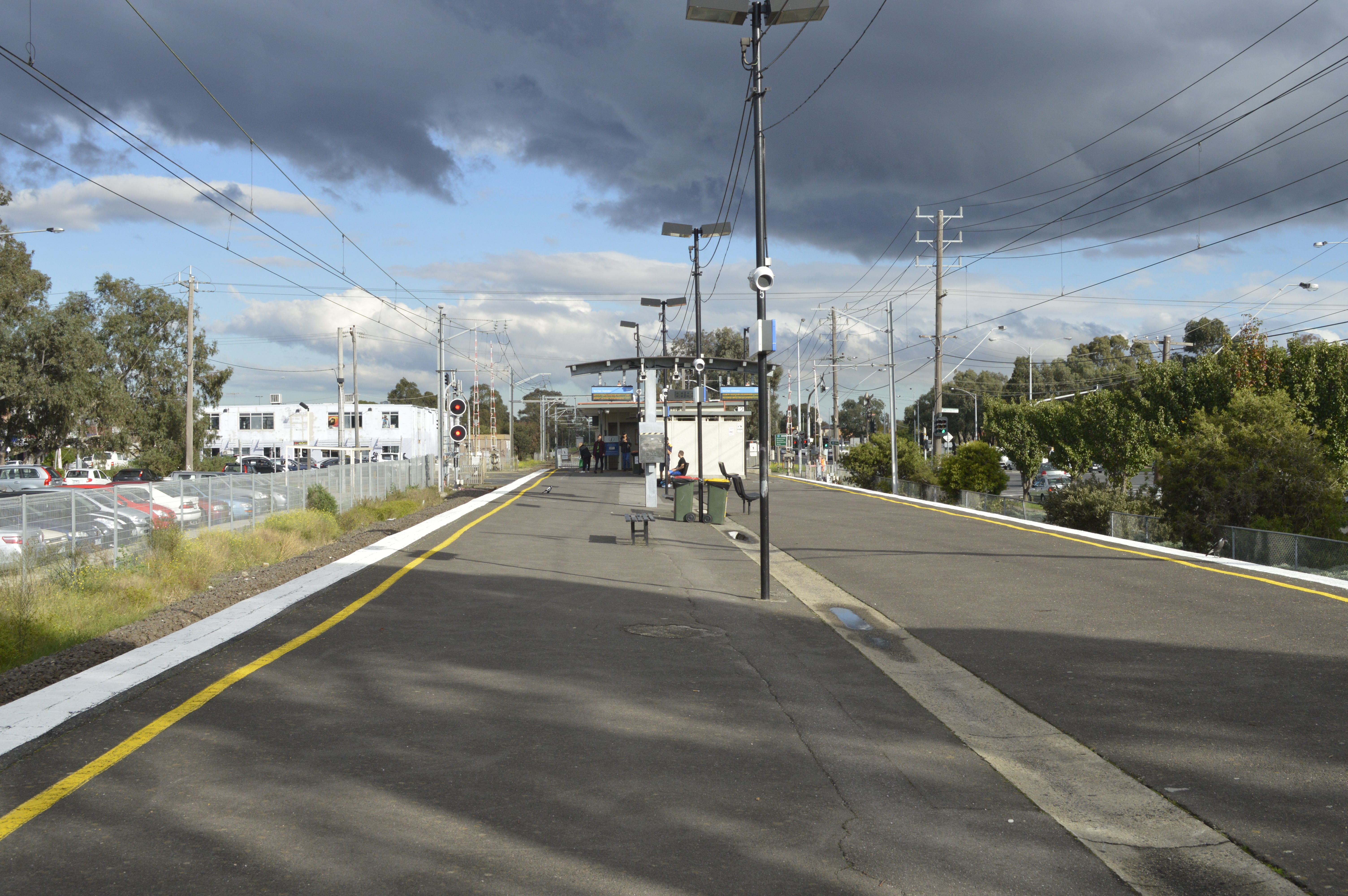 Looking towards Melbourne.